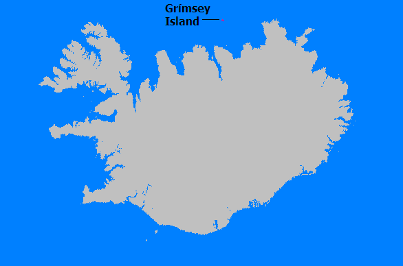 Grímsey Island location